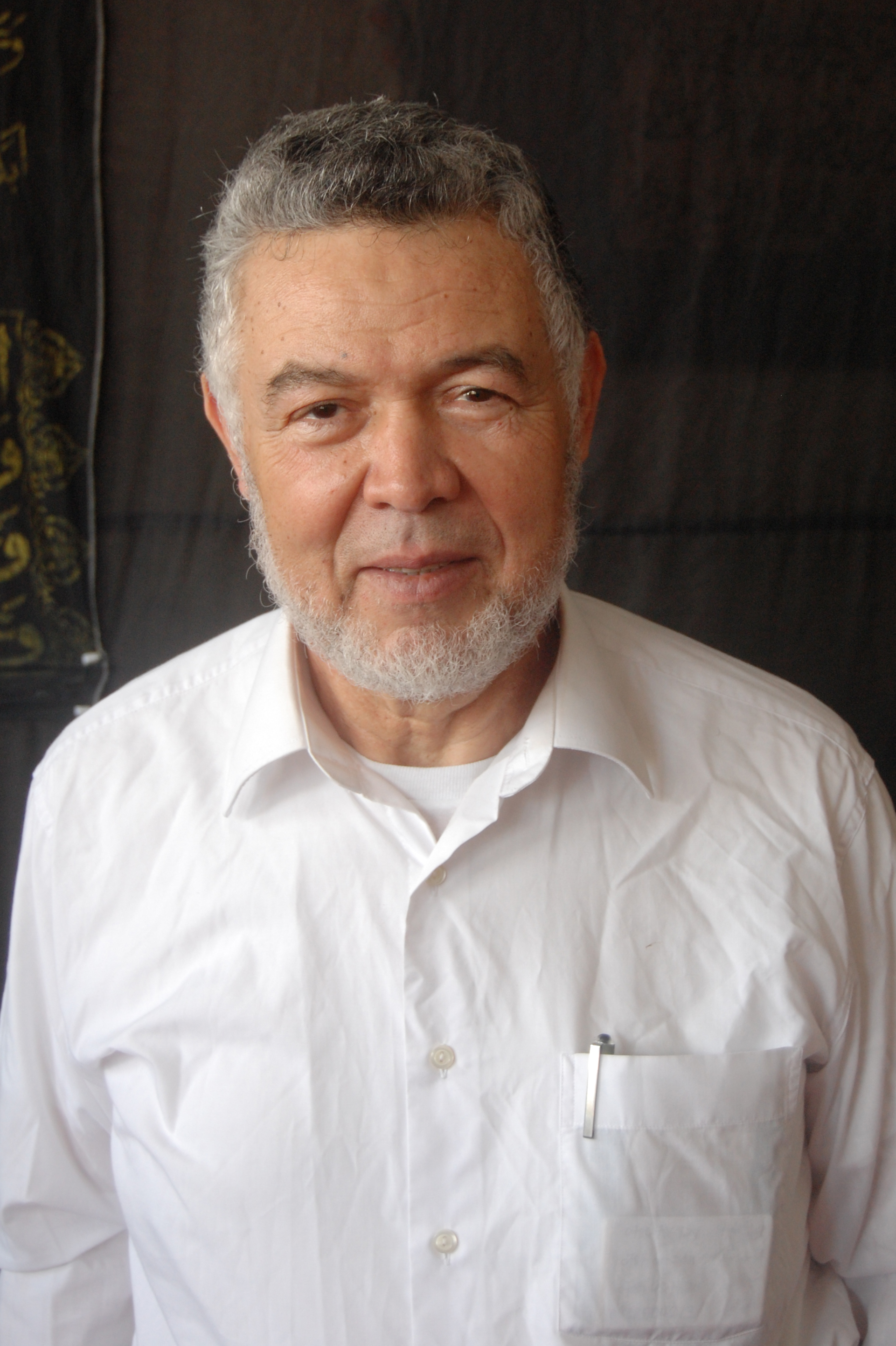 Picture of Muslim Scholar Muhammad al-Tijani